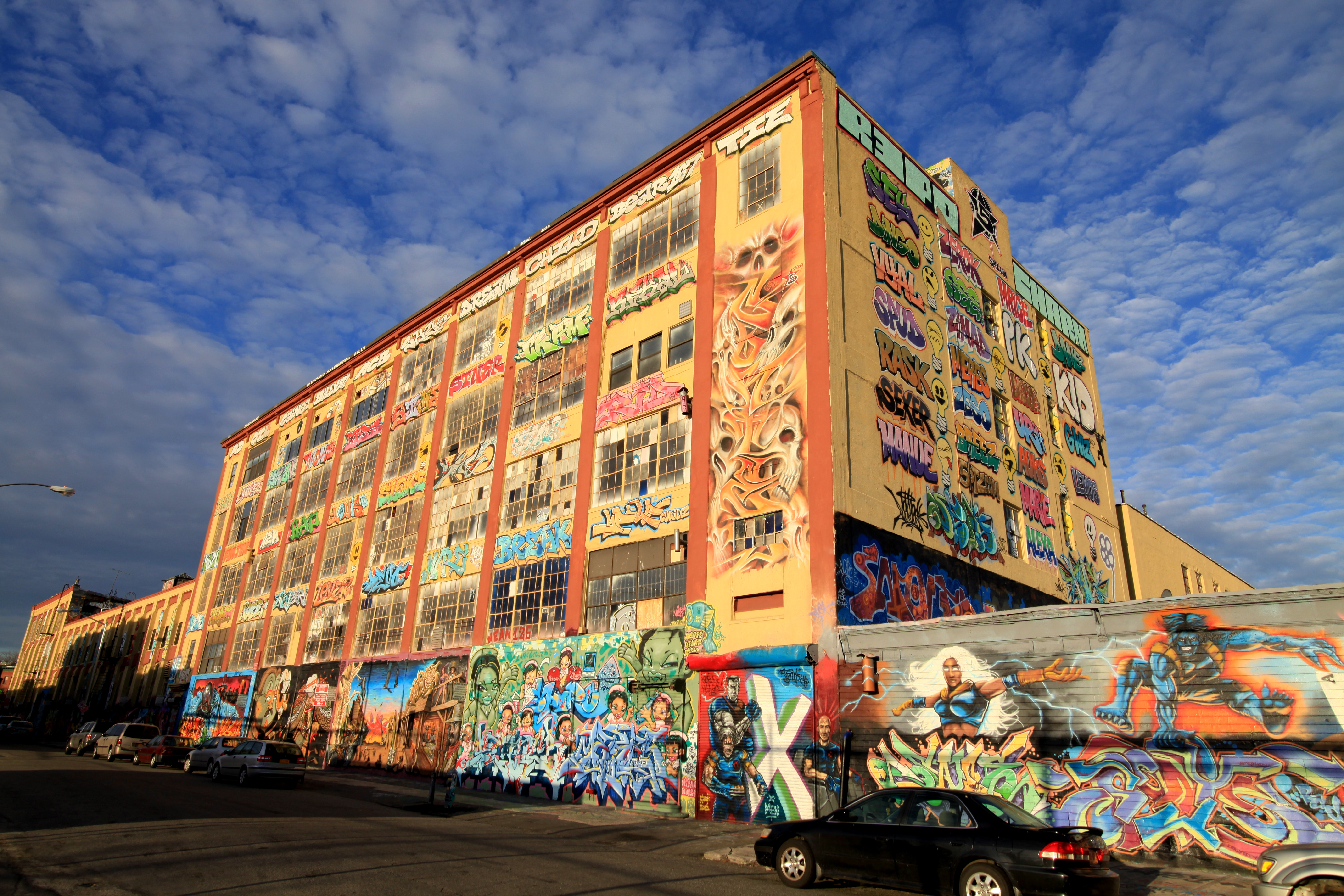 View of the front of 5 Pointz in Queens NY